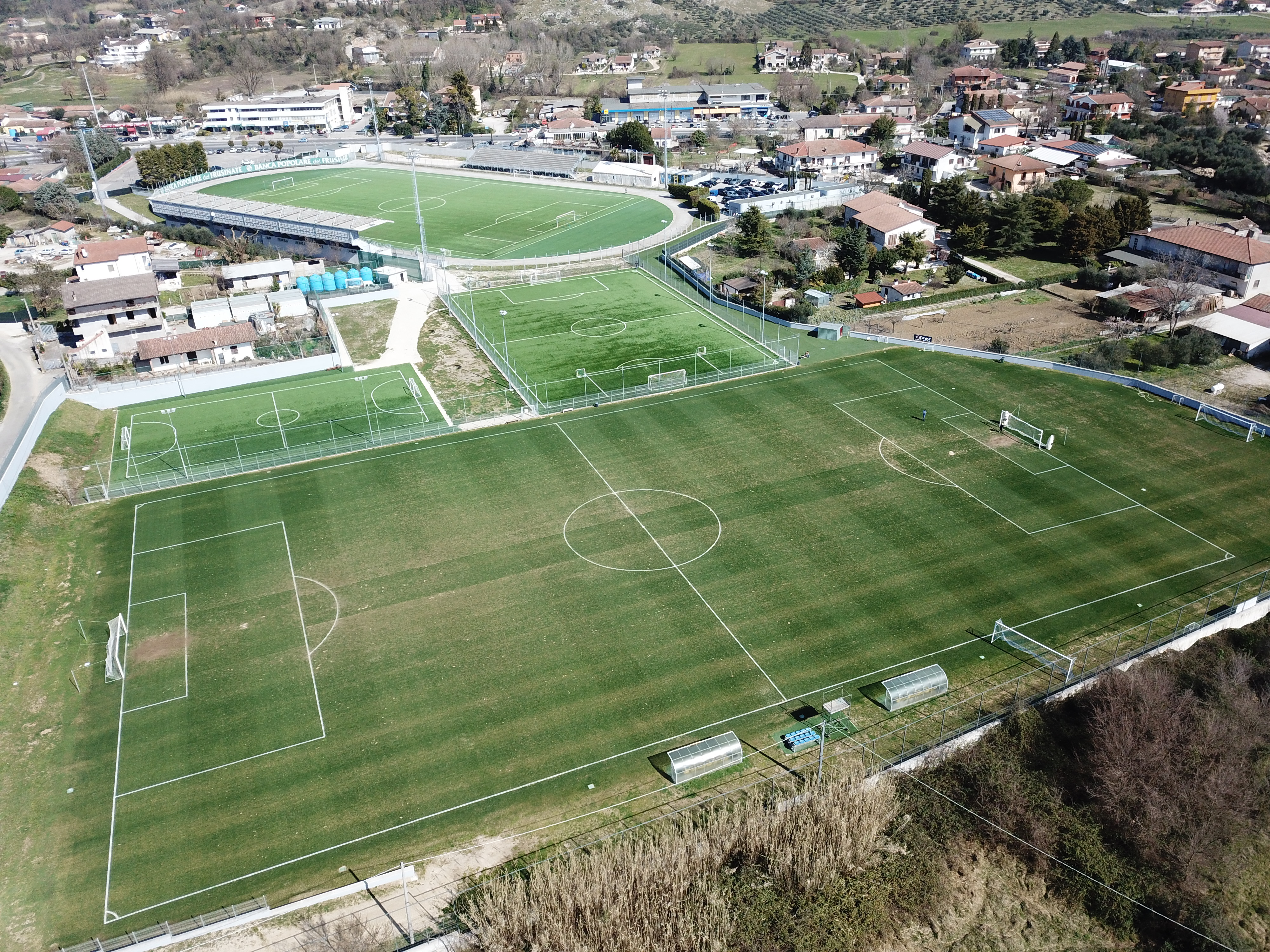 Frosinone Calcio: Cittadella dello Sport training centre in Ferentino. Panoramic view